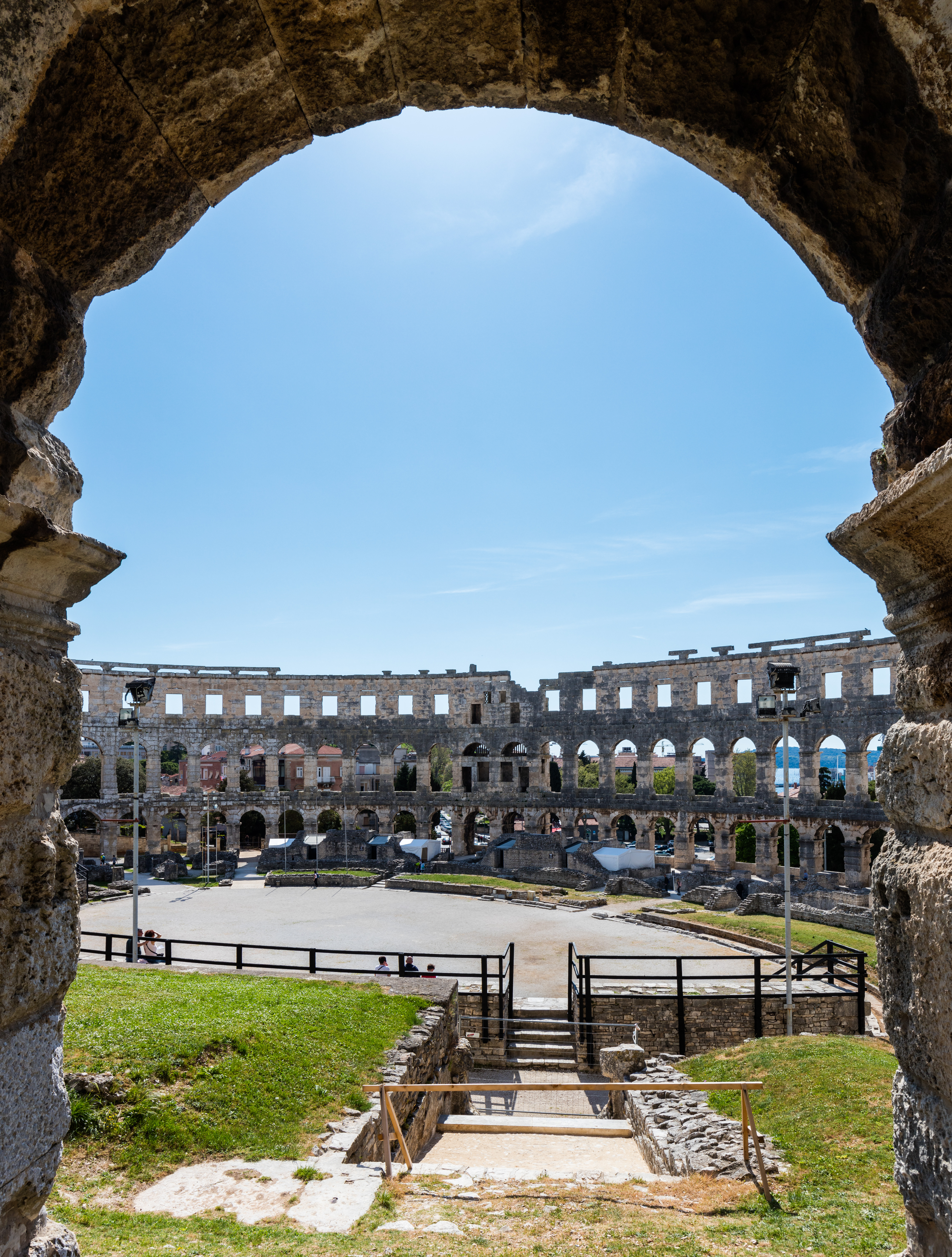 Pula amphitheatre, Croatia. This is a a photo of a cultural heritage in Croatia with ID: Z-863